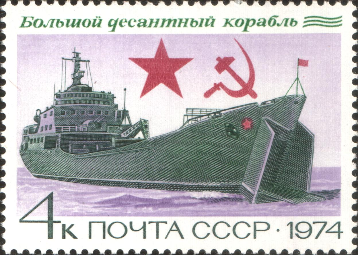 USSR stamp